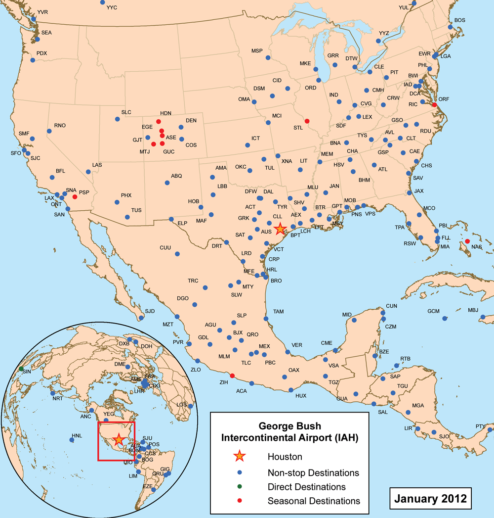 This is a route map for George Bush Intercontinental Airport as of January 2011. Map is an Azimuthal equidistant projection centered on the airport so straight lines from Houston are along great circle routes. Data source was individual airline websites and .